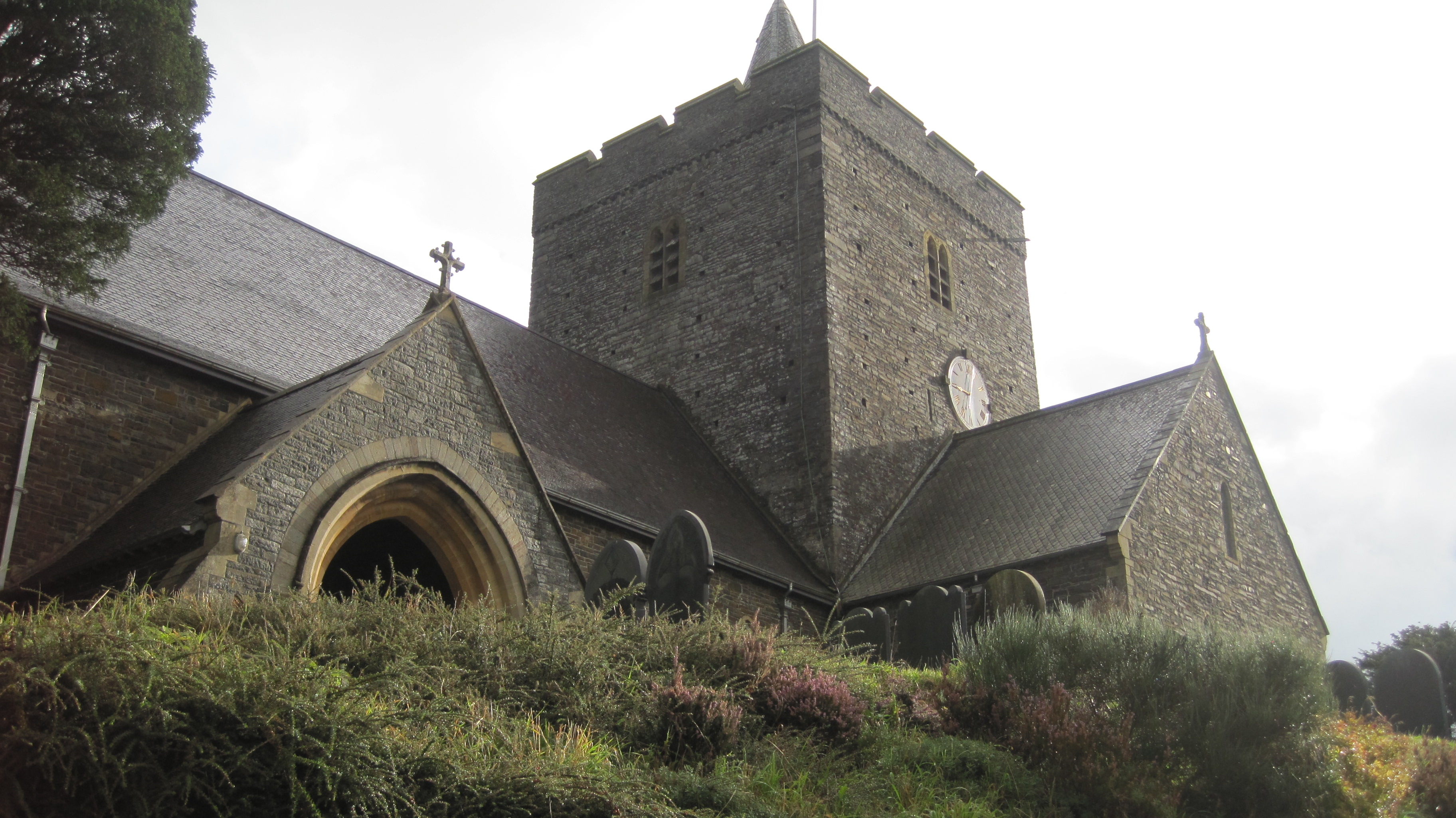 Llanbadarn fawr Church, Ceredigion